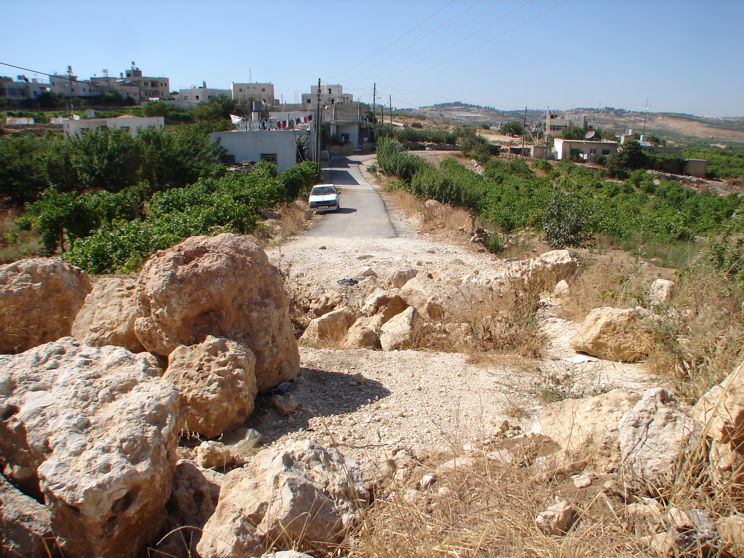 An earth mound placed by the IDF to prevent vehicle movement in the West Bank